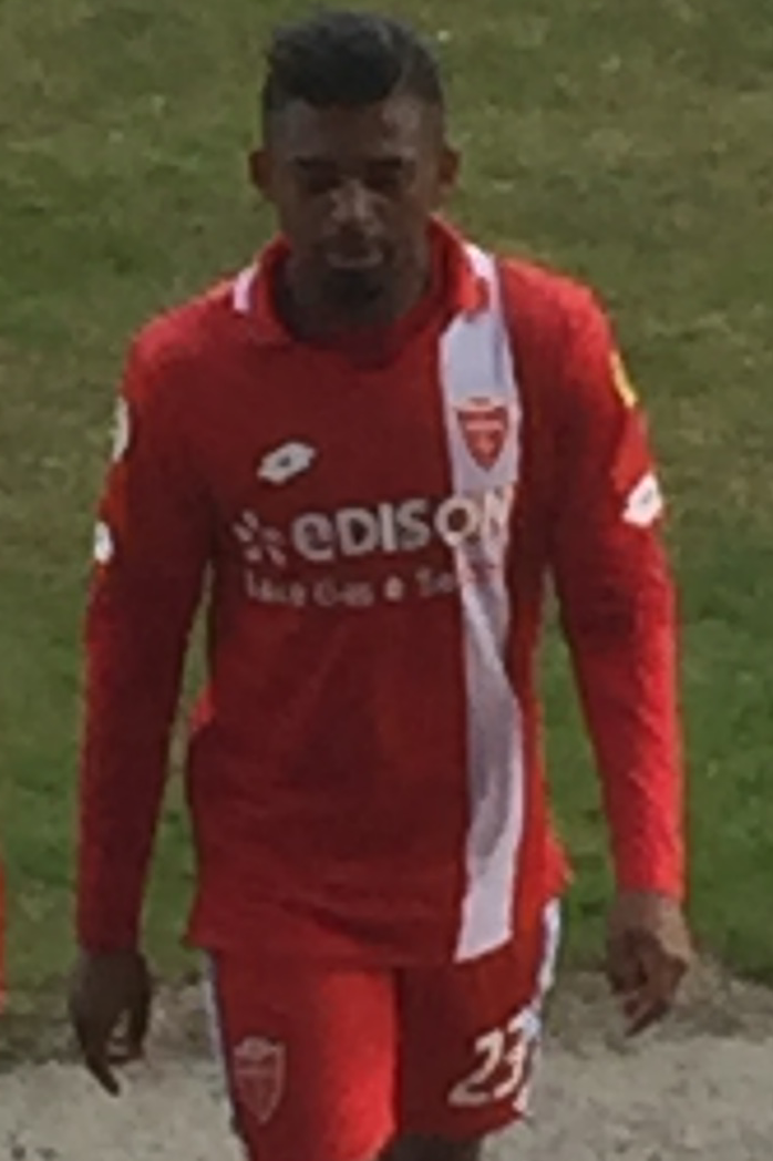 José Machín for Monza against Juventus U23 in Serie C.